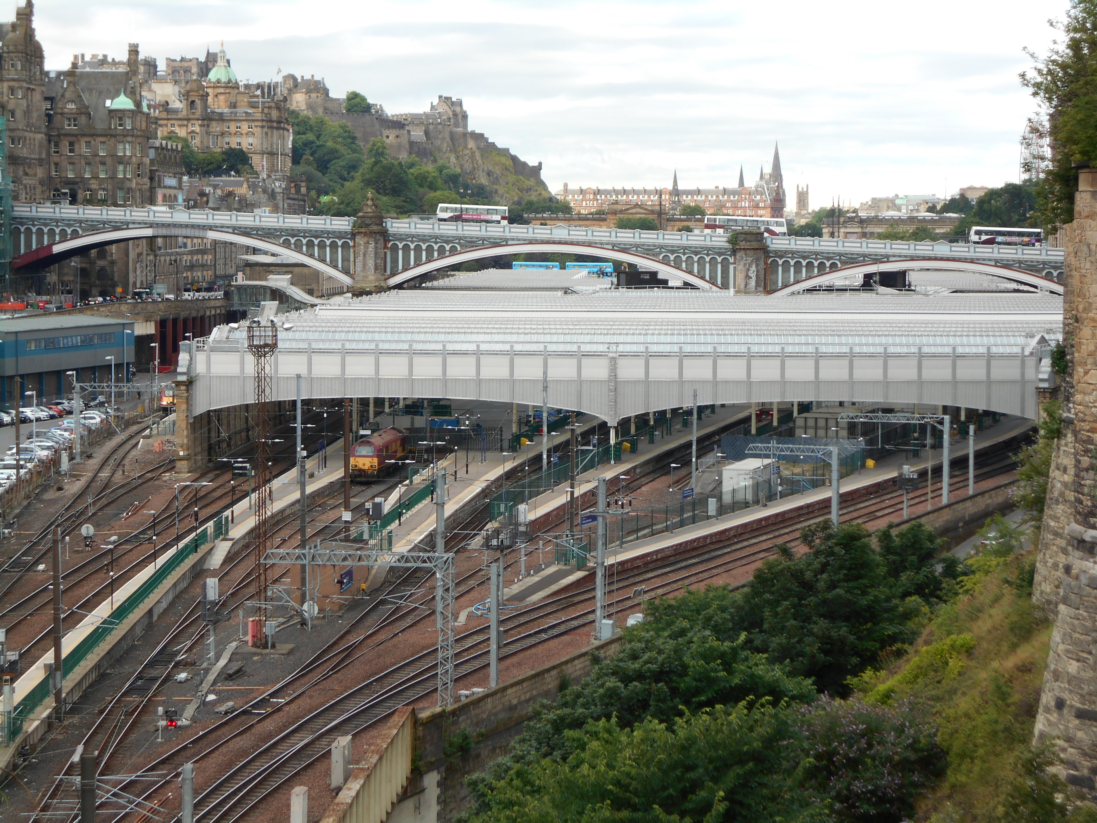 Edinburgh Waverley station from the east.